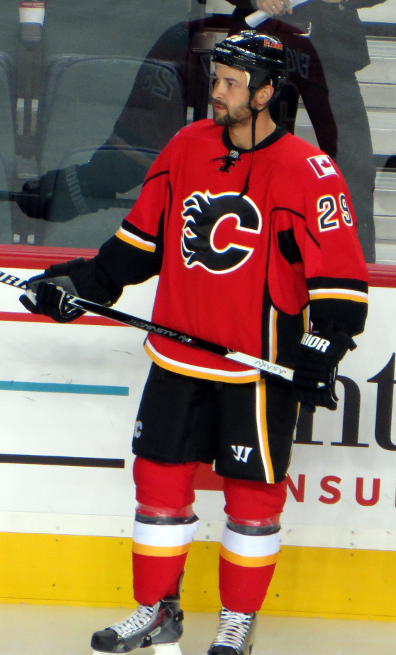 Calgary Flames defenceman Deryk Engelland prior to a National Hockey League pre-season game against Winnipeg.